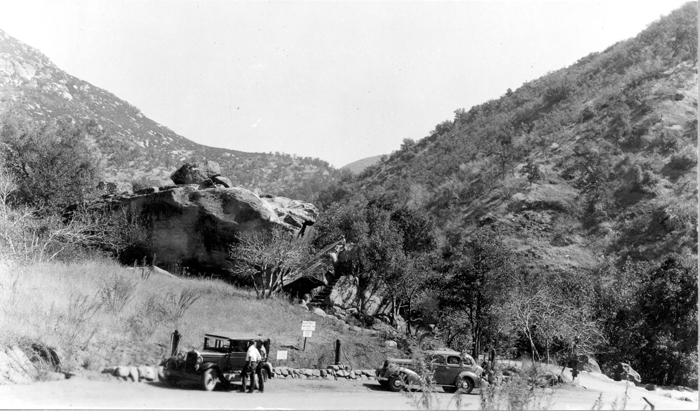 Hospital Rock — a granite rock formation and archaeological site, located in Sequoia National Park and Sierra Nevada, California. The archaeological site, in the Three Rivers−Ash Mountain Entrance region, is on the National Register of Historic Places in Sequoia-Kings Canyon National Park.